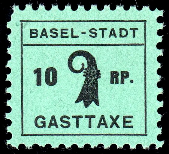 Switzerland Basel 1942 Tourism revenue 10Rp - 1. Perforated 10.75-11.